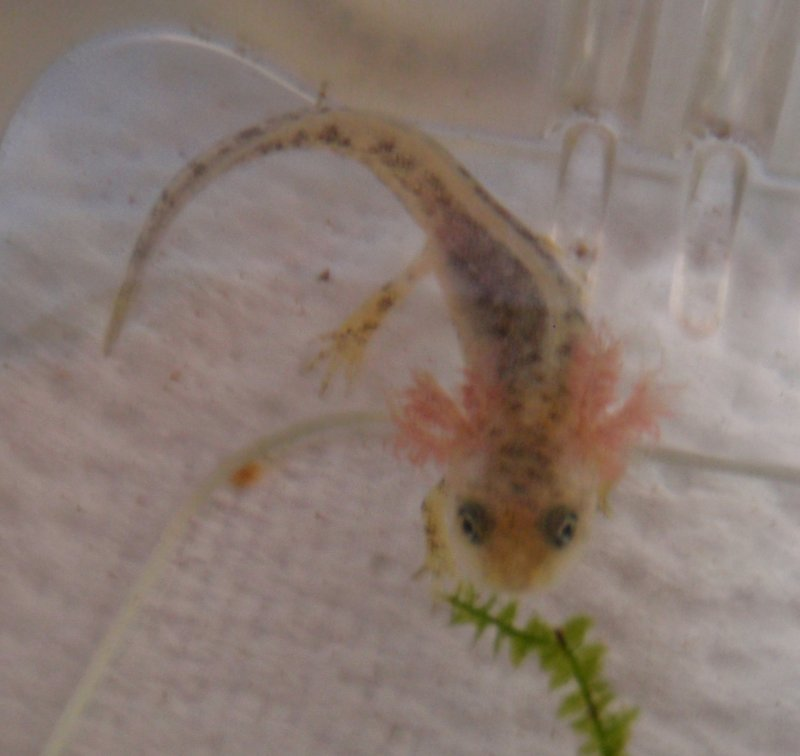 Neurergus kaiseri larva. Picture taken in captivity, in France.